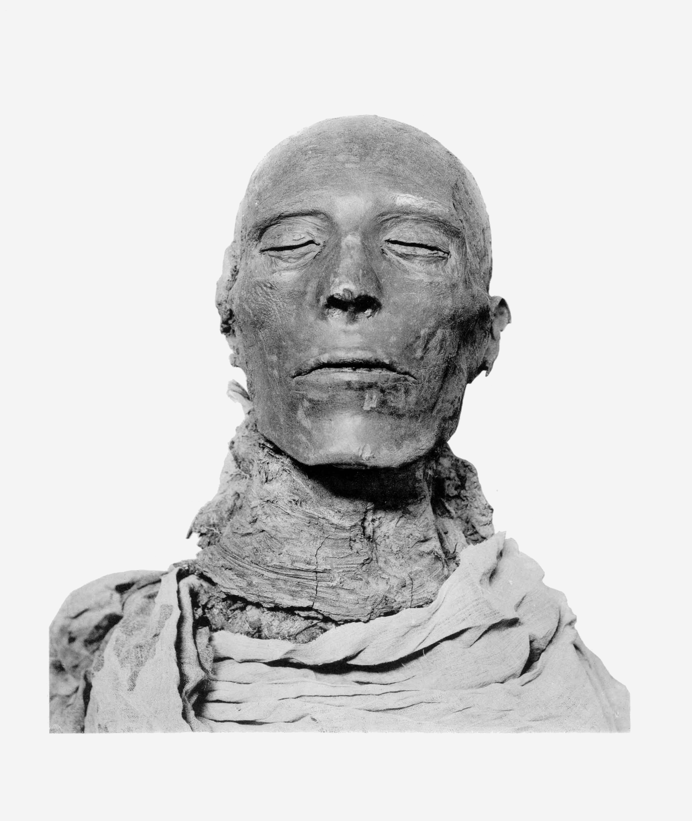 Head of mummy of pharaoh Seti I.